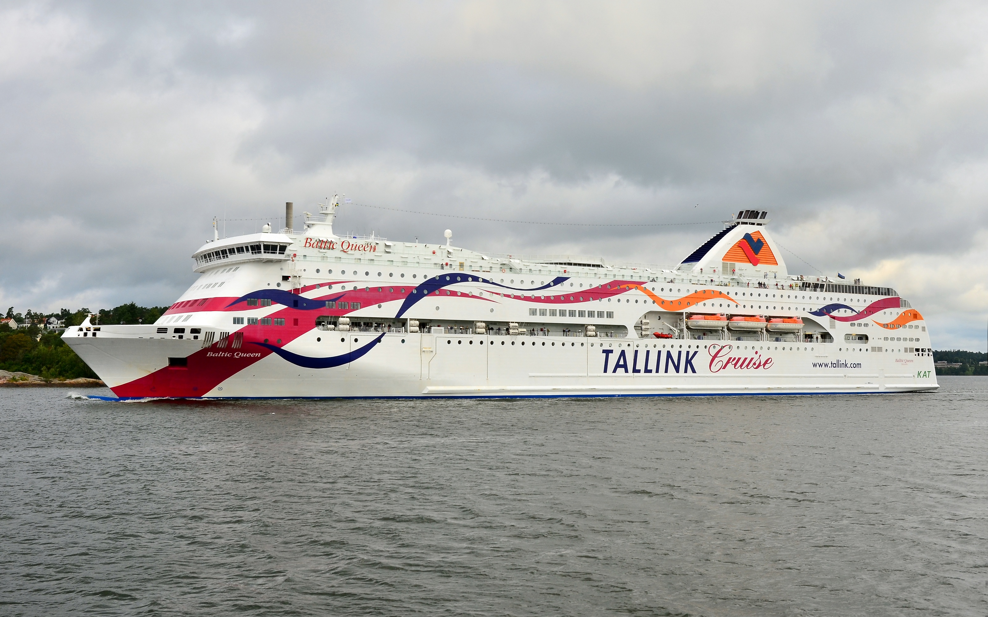 M/S Baltic Queen leaving Stockholm, Sweden.